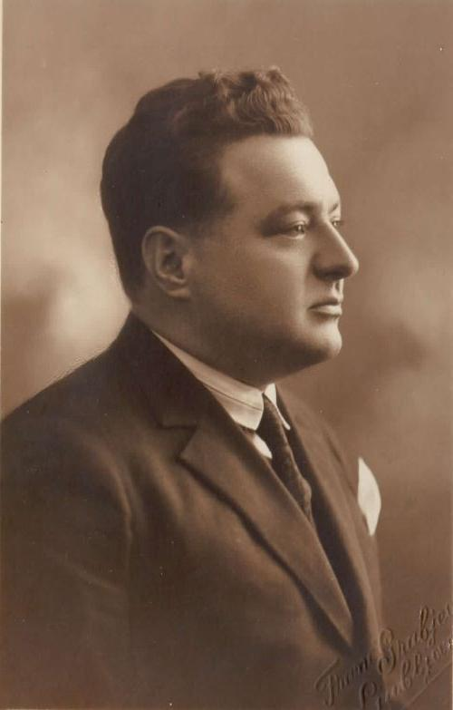 Igo Gruden (18 April 1893 - 29 November 1948), Slovene poet, translator, lawyer